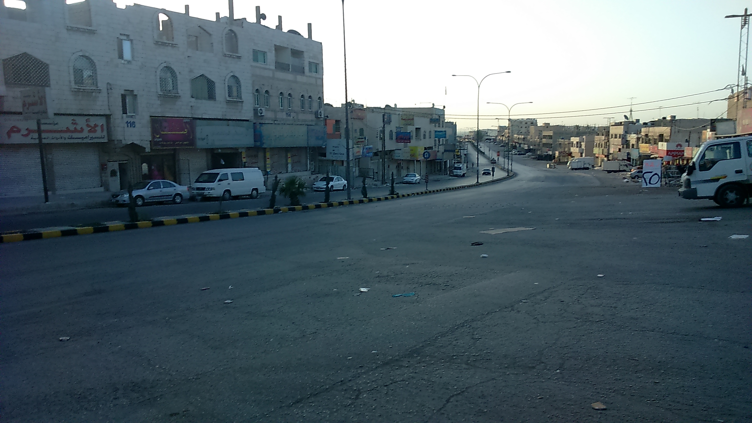 Al Jabal al shamale, Russeifa, Jordan